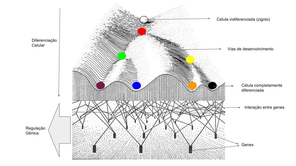 Adaptation from Waddington's epigenetic landscape